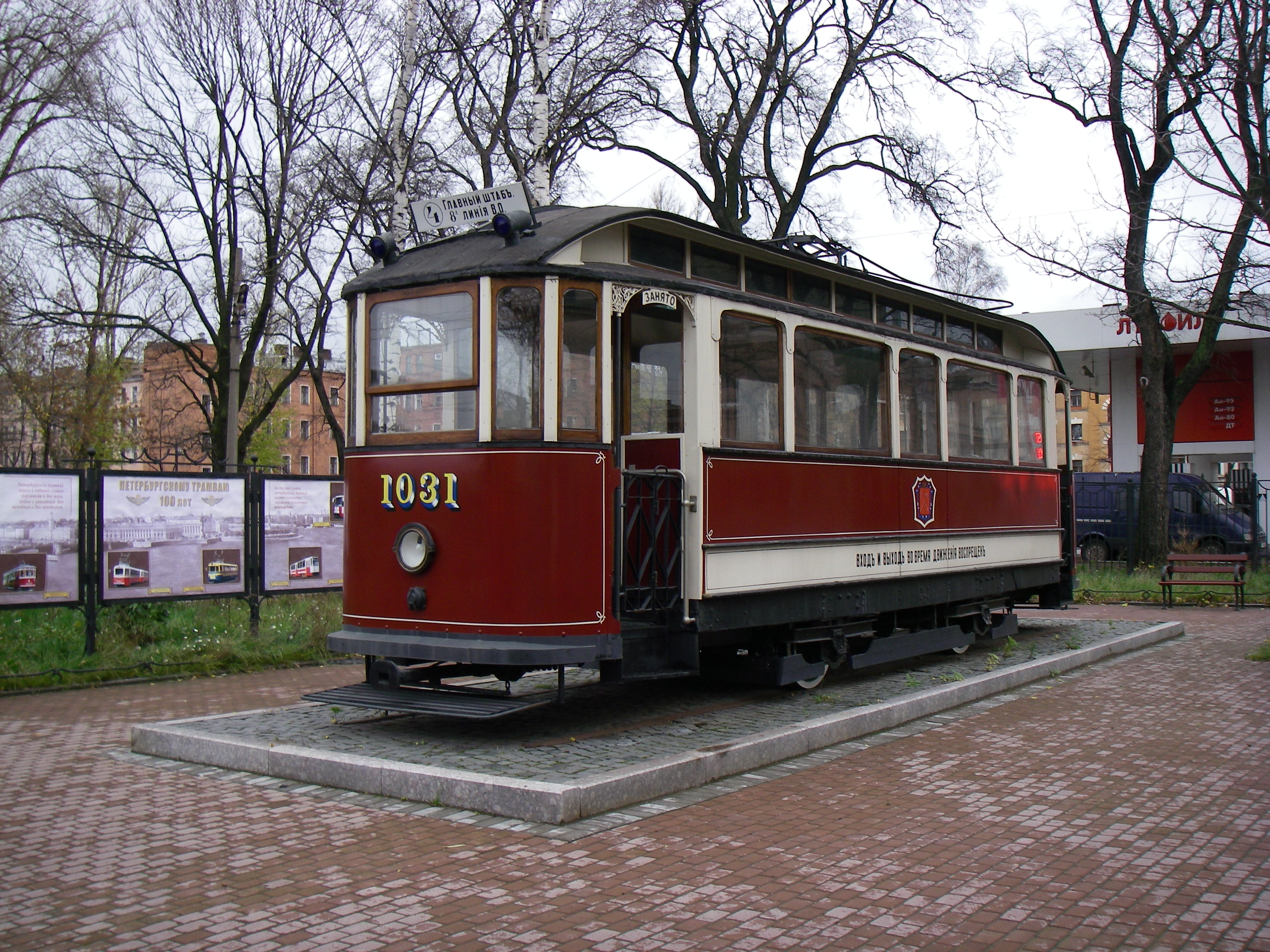 Tram monument in Saint Petersburg